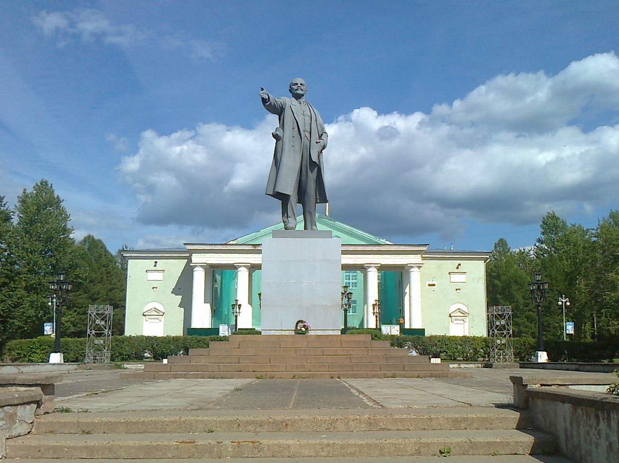 Siti Boksitogorsk. Lenin Square (2013)